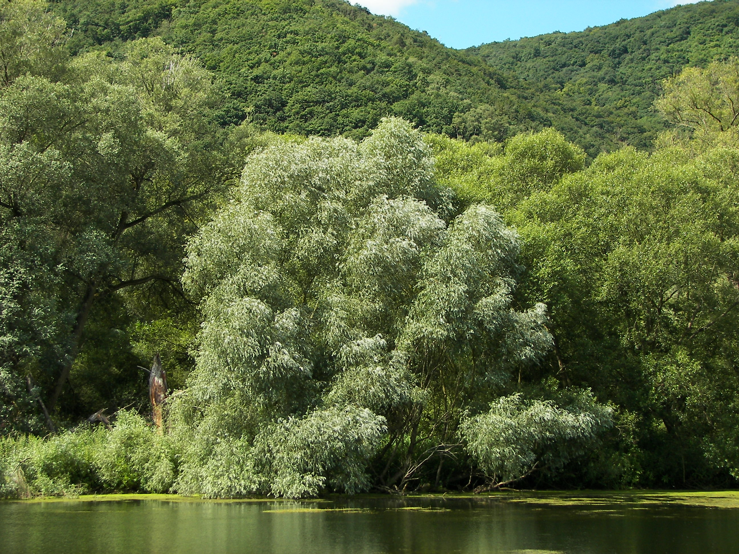 White Willow (Salix alba), Location: Riparian forest near Bingen, Rhineland-Palatinate, Germany